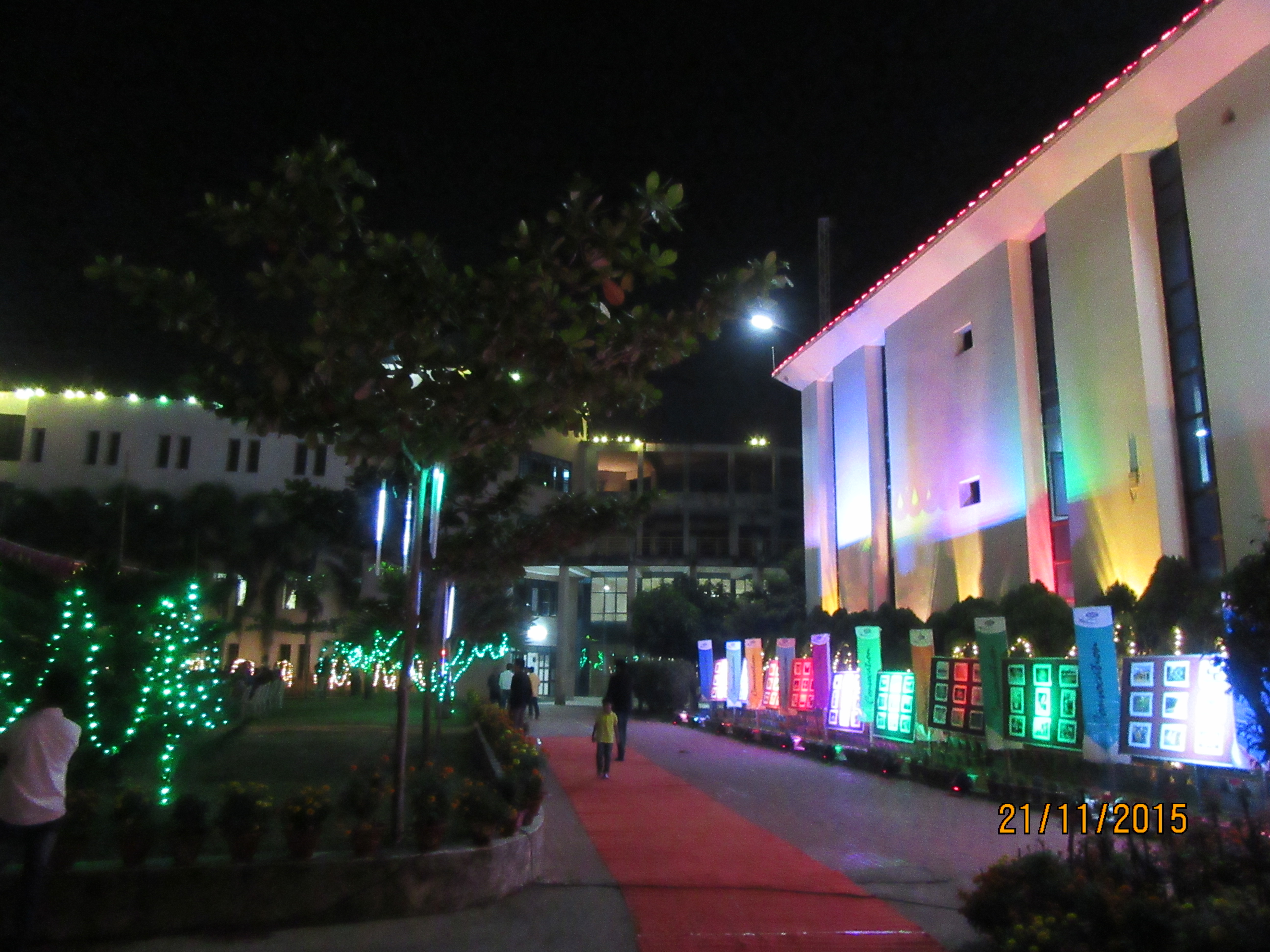 grand alumni night 2015